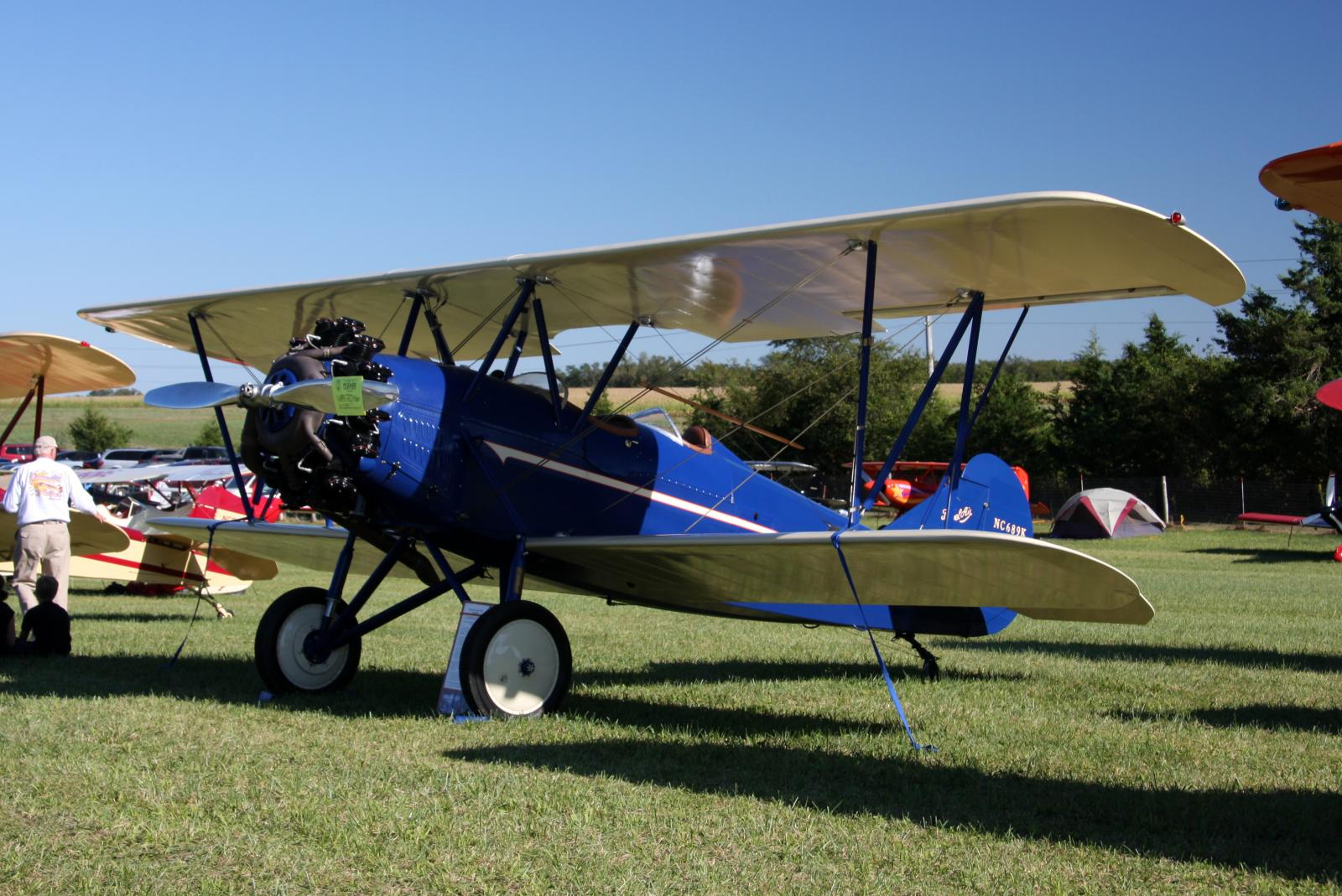 1929 Curtiss Wright TRAVEL AIR 4-D C/N 1270